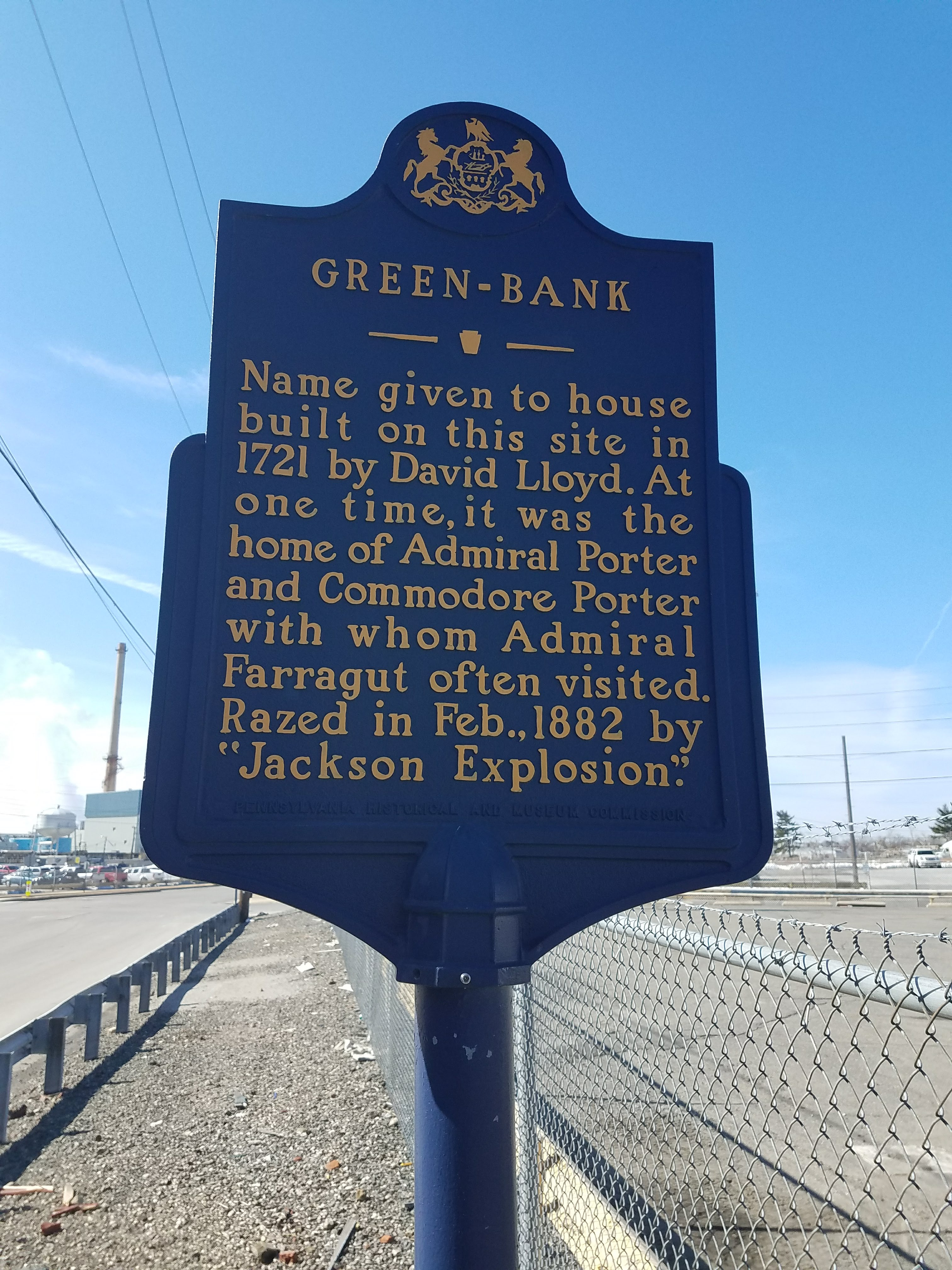 Photo of PA Historical Marker on site of Green Bank and Porter House - former home of David Lloyd and Commodore David Porter